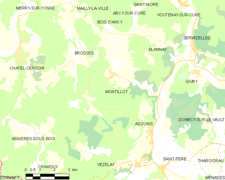 Map of French municipality Montillot